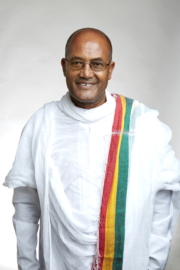 Sebsebe Demissew is a Professor of Plant Systematics and Biodiversity at Addis Ababa University and Executive Director of the Gullele Botanic Garden in Addis Ababa, Ethiopia Attribution: The Royal Society